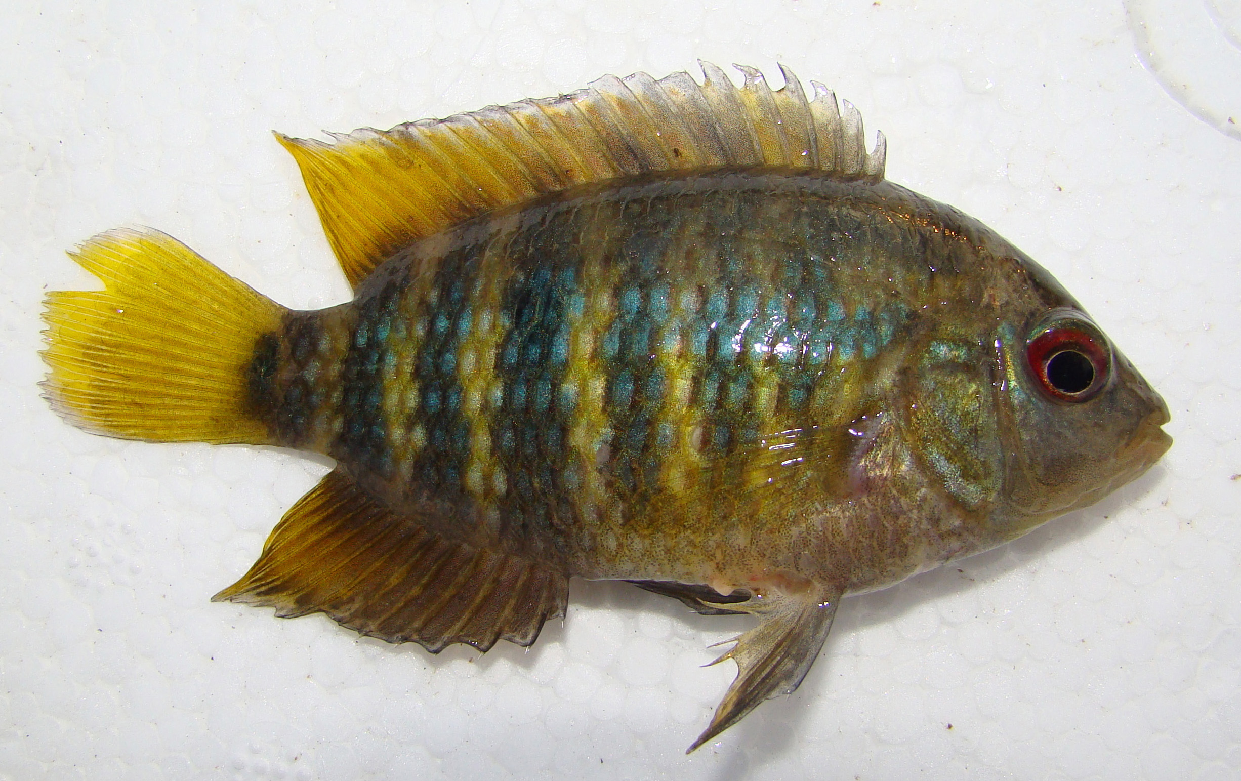 Australoheros facetus from a dam in Rio Grande do Sul, Brazil, photographed in February 2009.